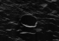 Oblique view of Chant, on the far side of the moon, facing west.